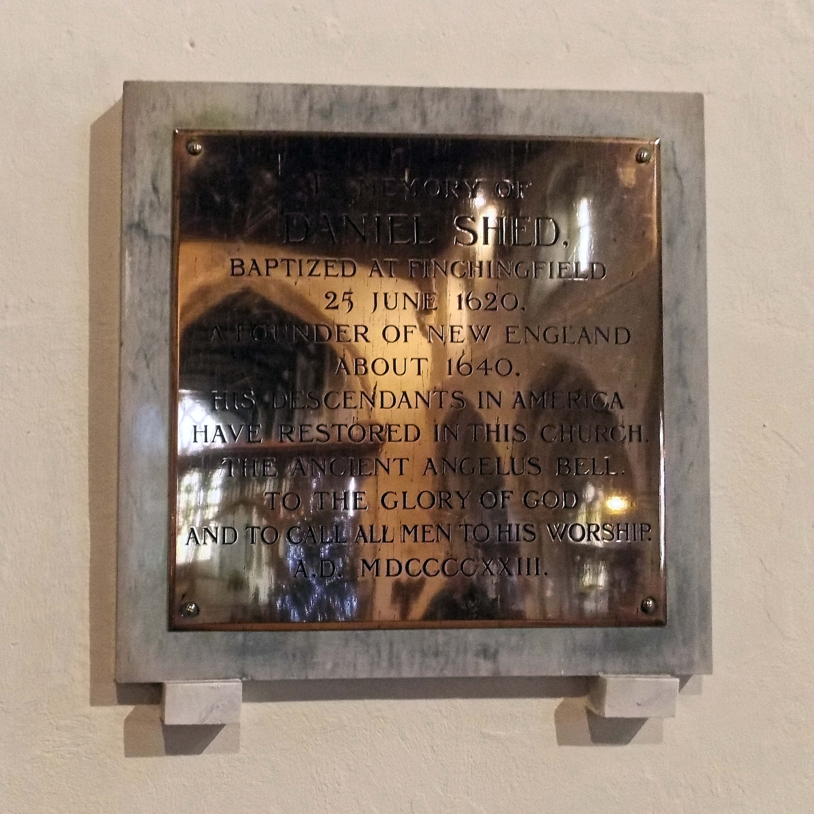 A memorial brass to Daniel Shed (or in the US, Shedd), in c.1640 a founder of New England, in St John the Baptist's Church, Finchingfield, Essex, England.Software: file lens-corrected and optimized with DxO OpticsPro 10 Elite, and further optimized with Adobe Photoshop CS2.